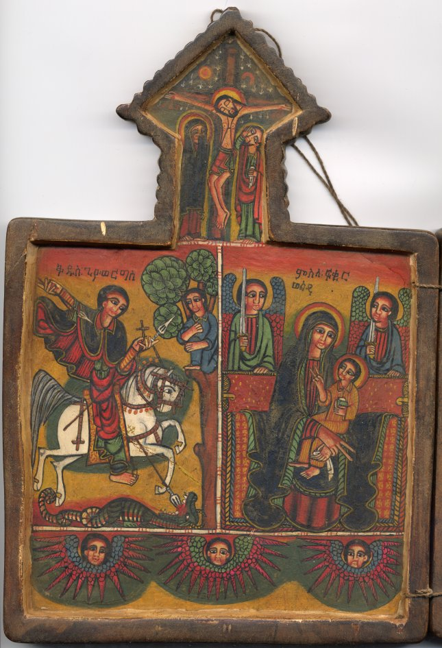 Image of a Ethiopian Icon showing St. George. Possibly early 20c, possibly older.